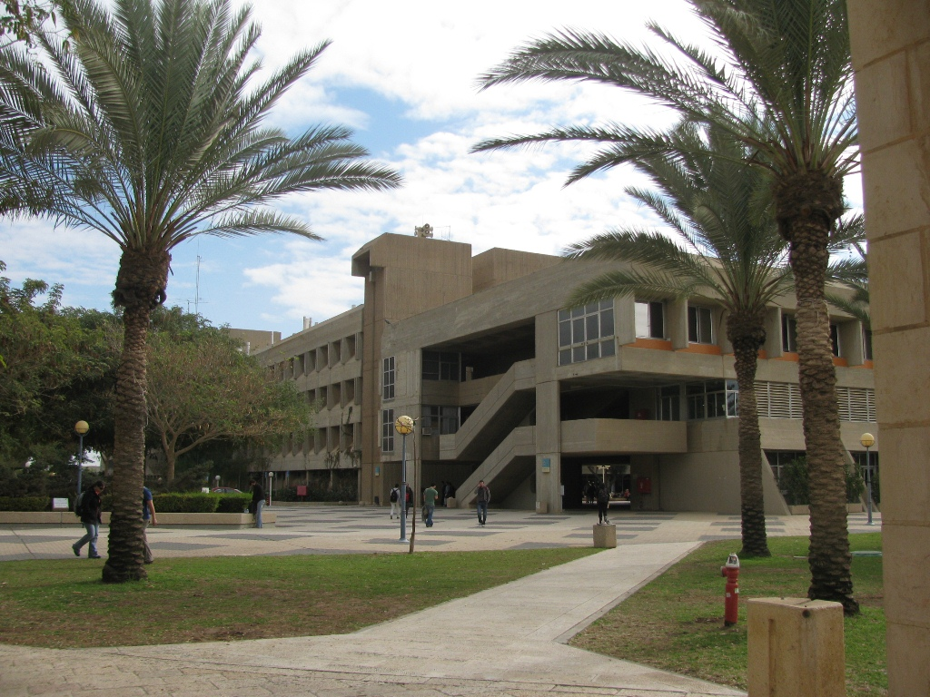 One of the oldest university buildings